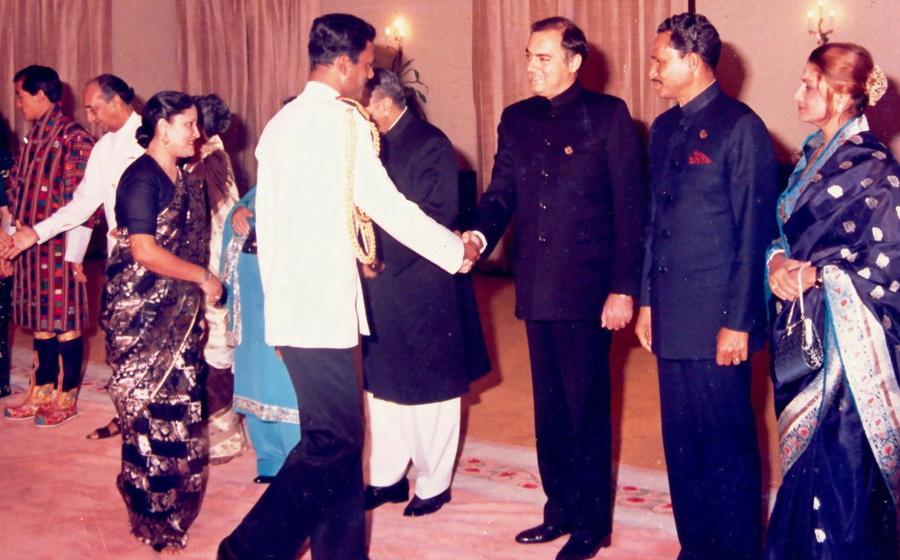 HM Ershad's reception for SAARC Head of States in Dhaka 1986